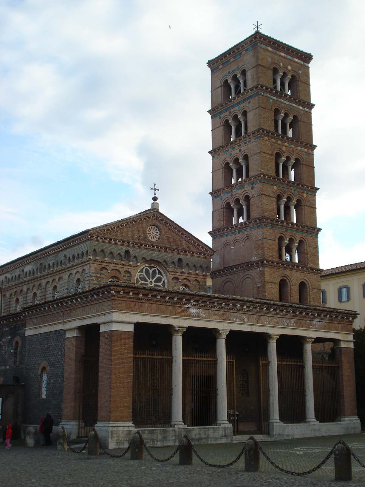 Grottaferrata -facade